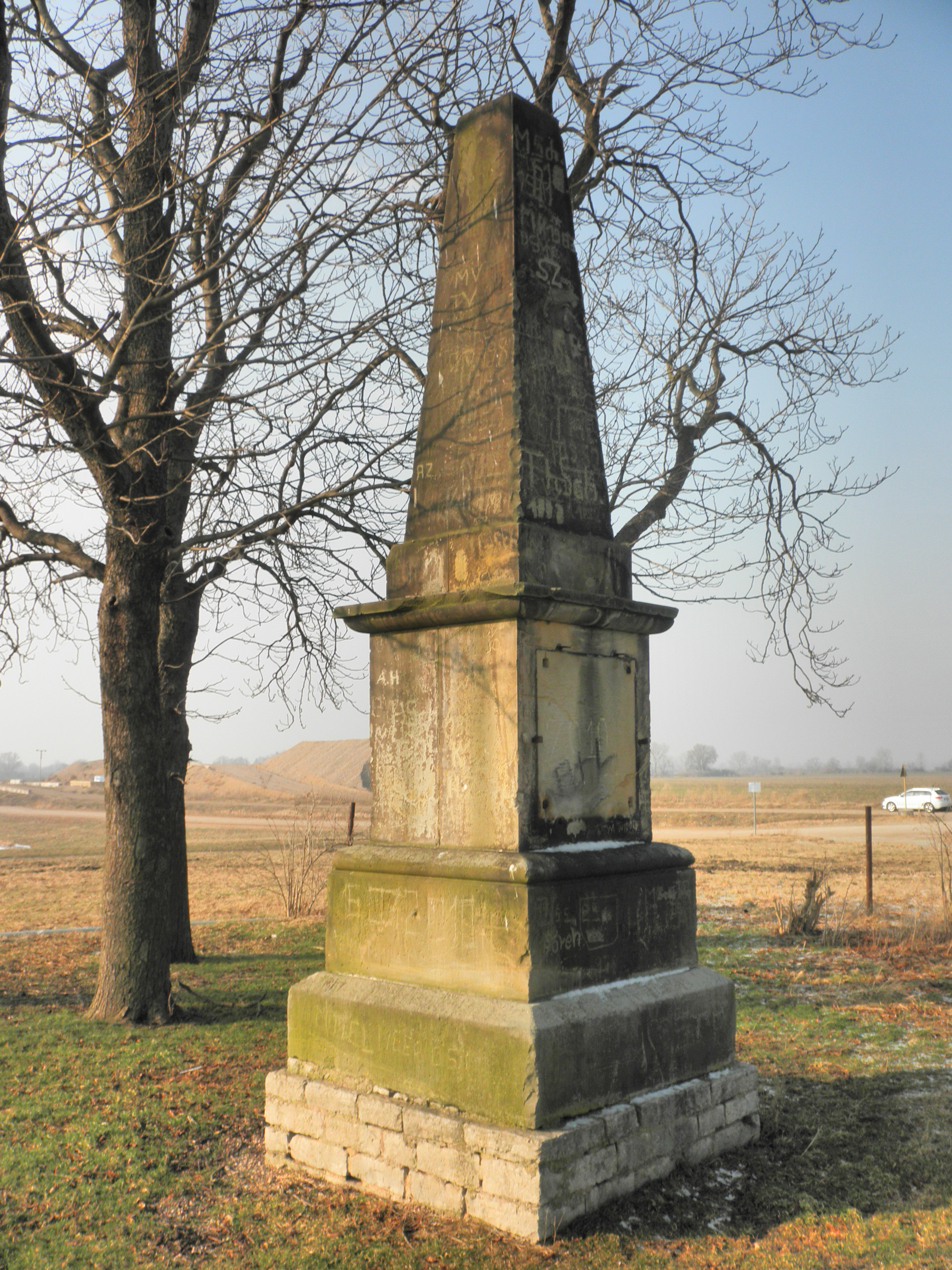 Historic Court Place (Obelisk) near Mittelhausen in Thuringia